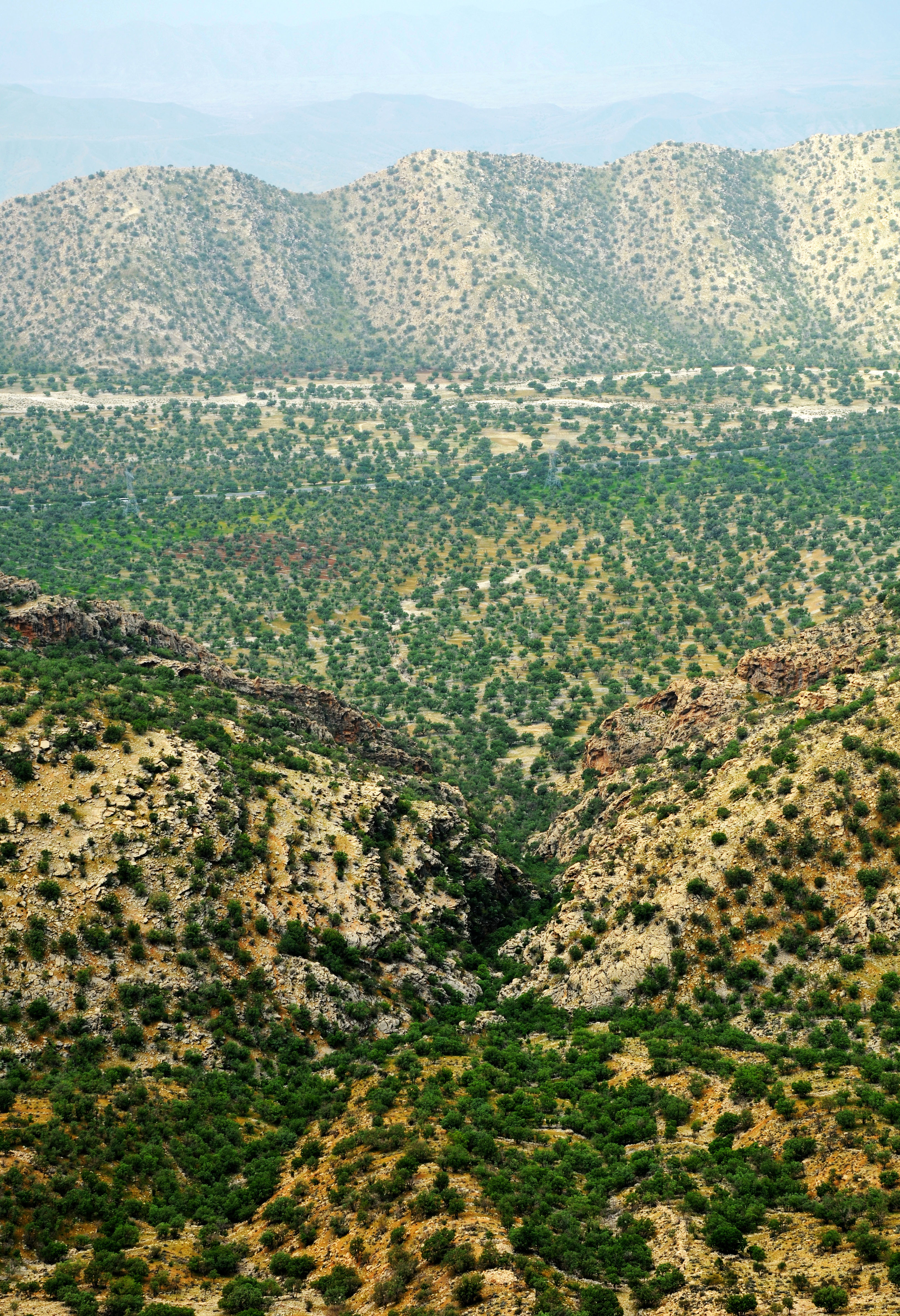 Kazeroun Road - The nature of Zagros Mountain in Fars province